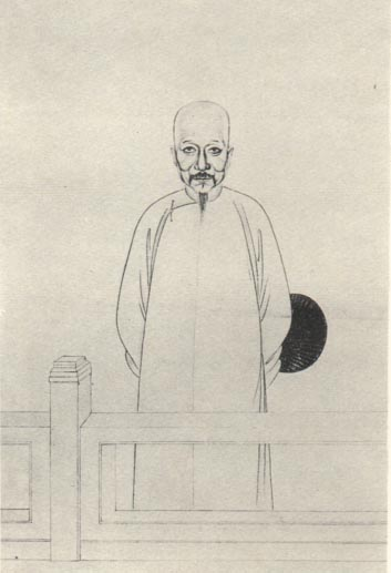 FANG Chenggui, scholar of the Qing Dynasty.